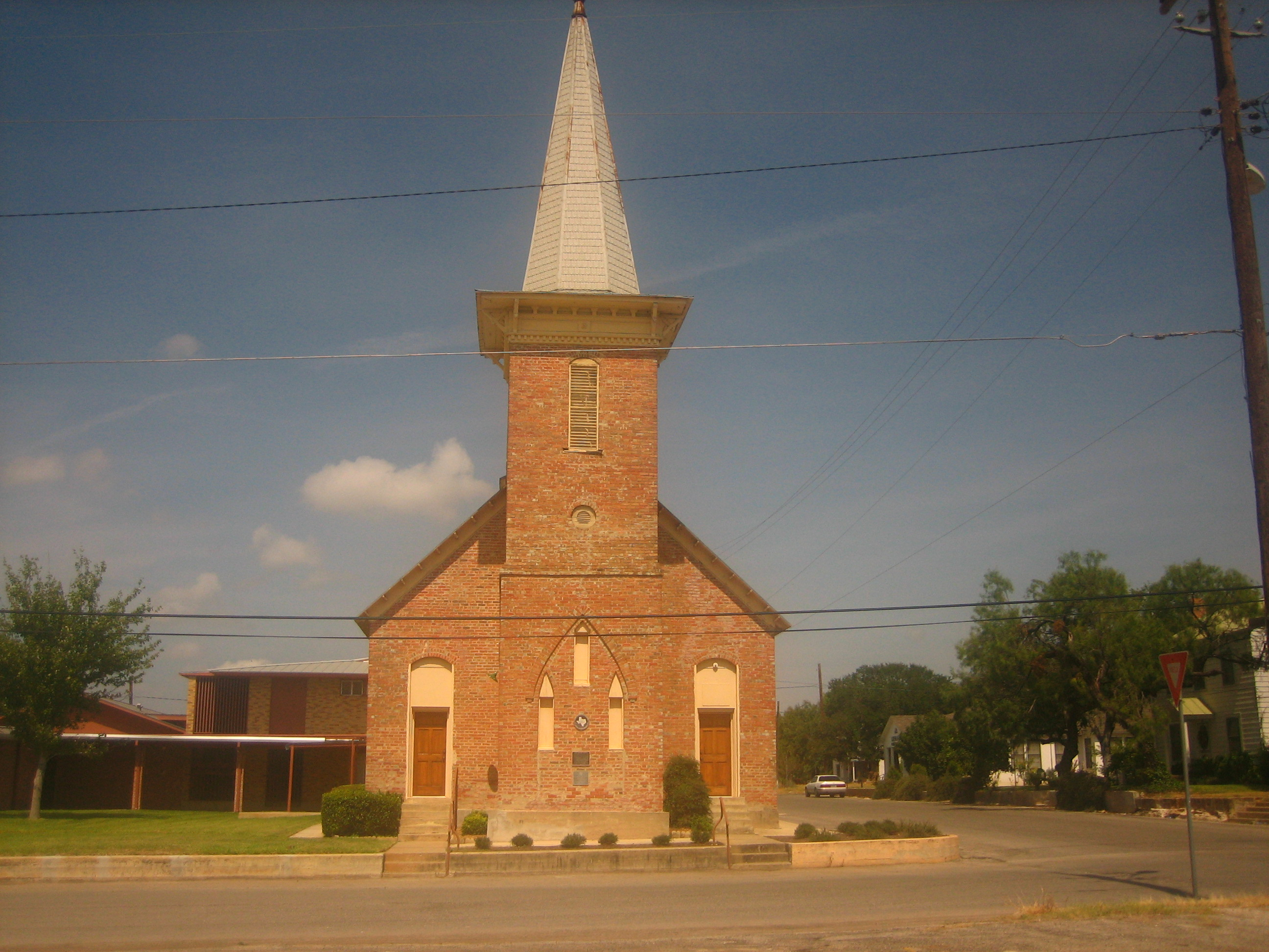 First Baptist Church in Carrizo Springs, Texas. Located on the corner of N. 7th and W. Houston Sts.